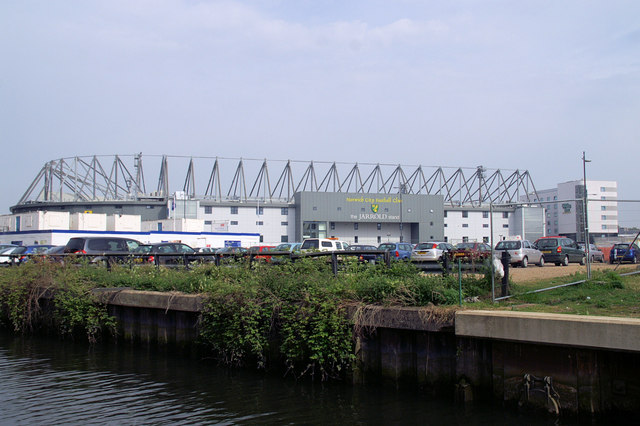 Carrow Road football stadium, Norwich City's ground seen from the River Wensum.